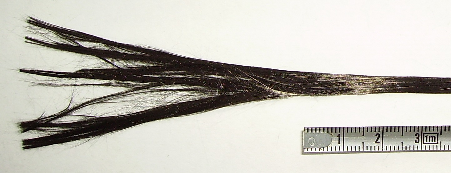 Carbon fiber.